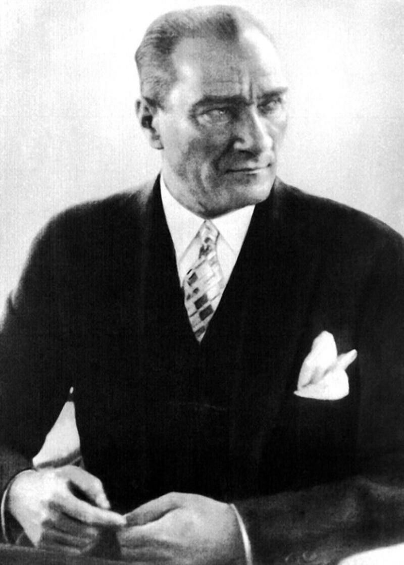 Kemal Atatürk (or alternatively written as Kamâl Atatürk, Mustafa Kemal Pasha until 1934, commonly referred to as Mustafa Kemal Atatürk; 1881 – 10 November 1938) was a Turkish field marshal, revolutionary statesman, author, and the founding father of the Republic of Turkey, serving as its first President from 1923 until his death in 1938. He undertook sweeping progressive reforms, which modernized Turkey into a secular, industrial nation. Ideologically a secularist and nationalist, his policies and theories became known as Kemalism. Due to his military and political accomplishments, Atatürk is regarded as one of the most important political leaders of the 20th century.